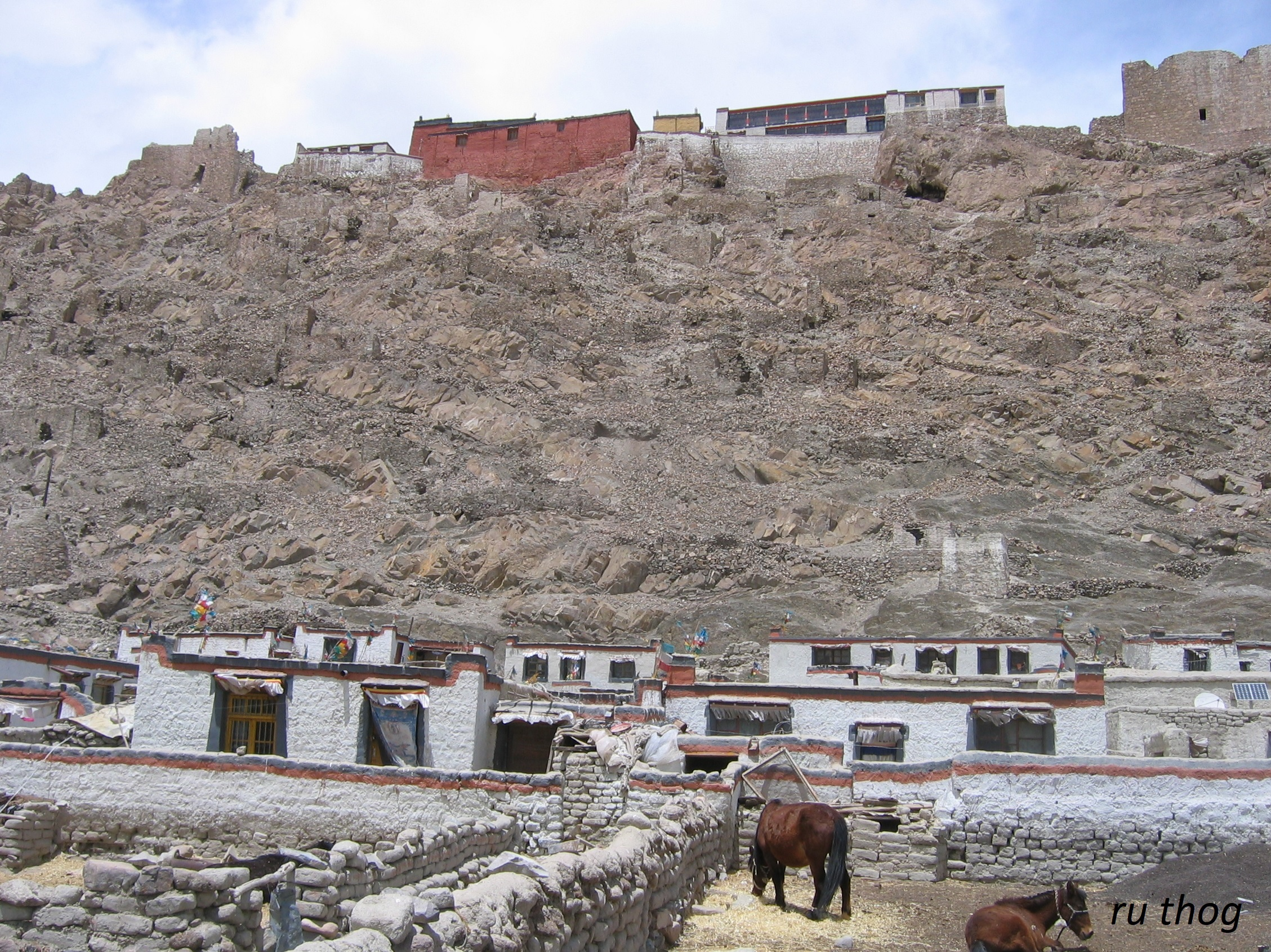 Rutok Dzong, Western Tibet